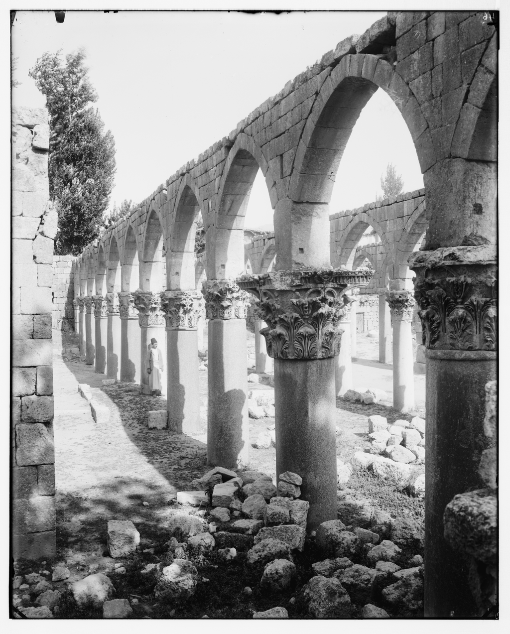 The American Colony in Jerusalem was founded in 1881 as a Christian utopian community by Chicago natives Anna and Horatio Spafford. In addition to pursuing its religious goal of emulating the spirit and practices of the early Christians, the community engaged in humanitarian relief efforts, notably during the difficult years of World War I. The American Colony’s photographic department traced its beginnings to the community’s 1898 purchase of a camera to document a visit to Jerusalem of the German Kaiser, Wilhelm II. Over the years, the colony’s archives grew to include thousands of photographs of the Middle East, including important images of the war years in Palestine. Among the colony’s photographers was Eric Matson, from whose archives this item is drawn. This photograph depicts a colonnaded wall from the noted archaeological site of Baalbek in eastern Lebanon. Baalbek was an important religious center known as Heliopolis in the Roman Imperial period. It was named a UNESCO World Heritage Site in 1984. Archaeological sites; Mosques